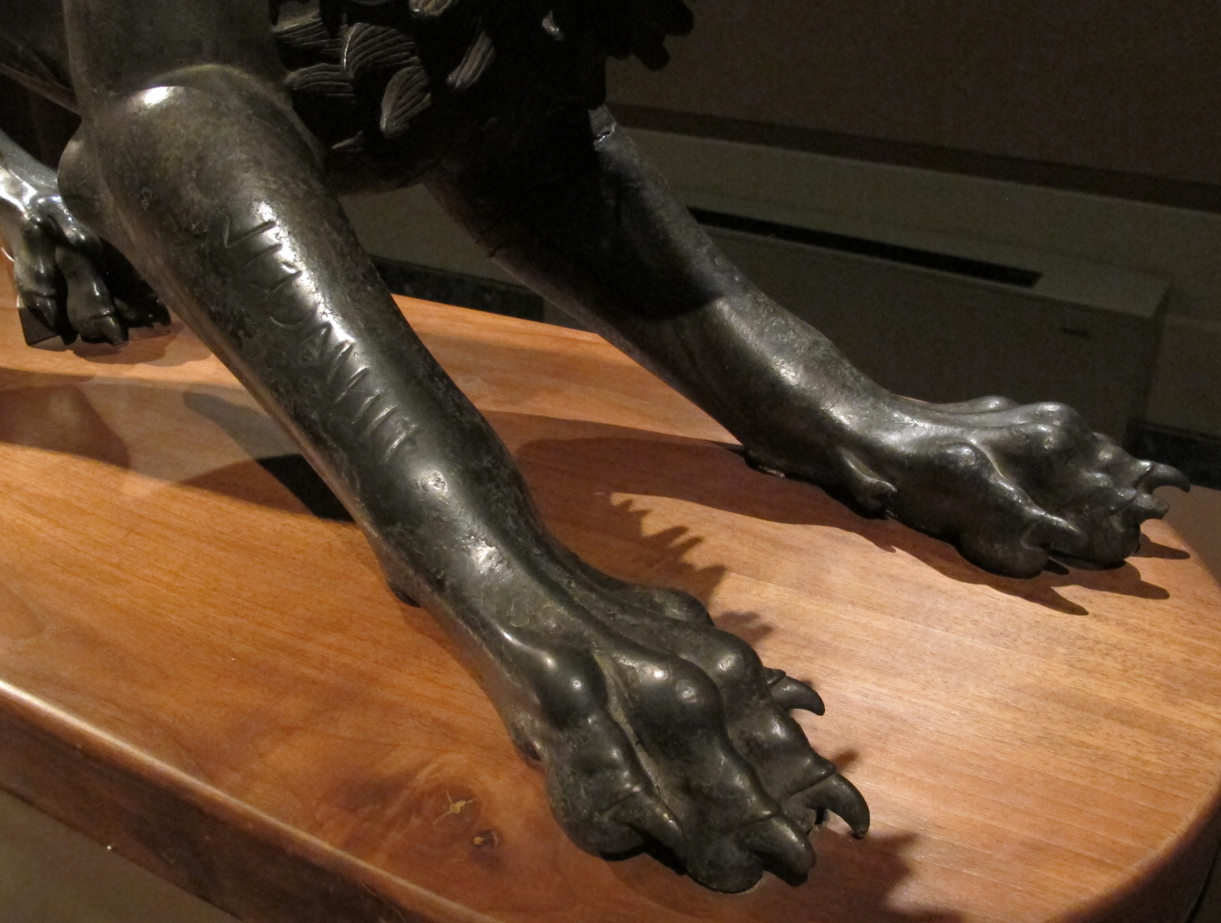 Etruscan bronze statue depicting the legendary monster. It was originally part of a group with Bellerophon and Pegasus. On the right leg is engraved the dedicatory inscription to Tinia.